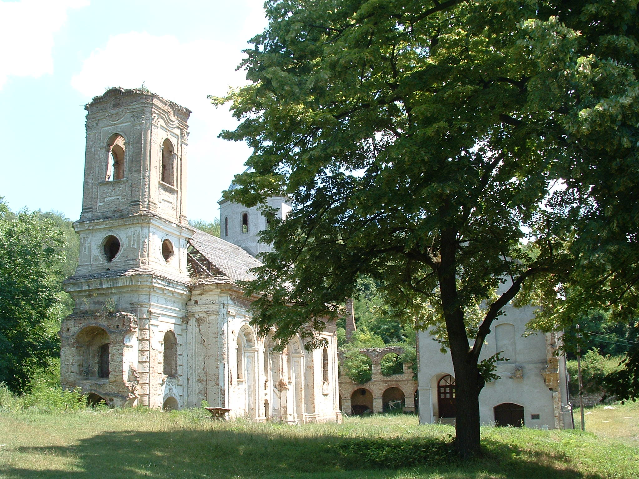 Kuveždin Monastery - Before Reconstruction